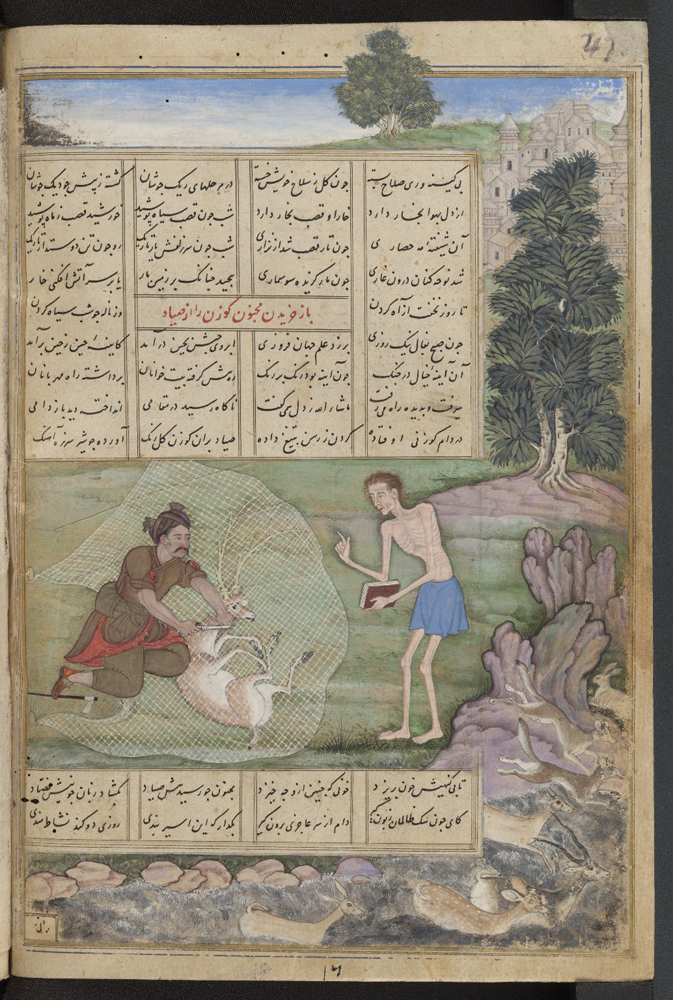 Majnūn redeeming the deer from the huntsman. Illustration of the story of Layla and Majnun, by Nizami. Persian text with painting in Mughal style. Book originally from India but acquired by the Bodleian Library in 1953. Shelfmark MS. Pers. d.102